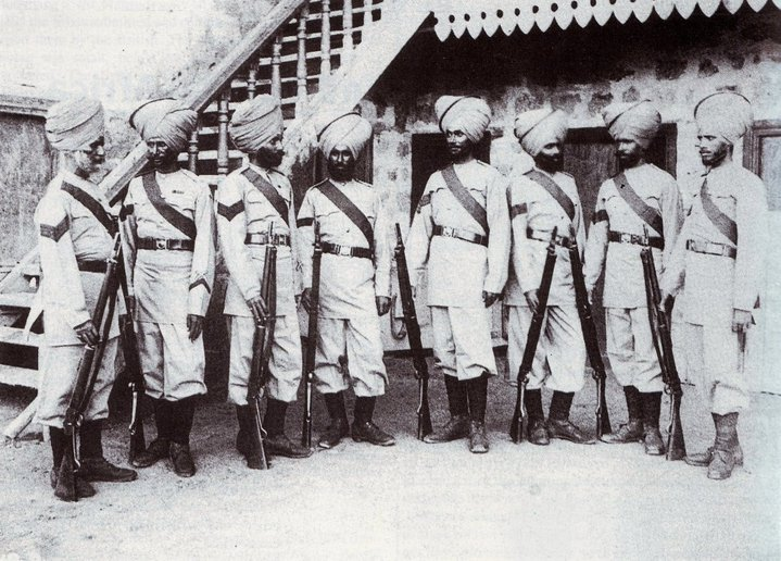 Between 1891 and 1899 soldiers of the Indian Army were granted permission to volunteer for service with organisations like the British Central African Company. Here are some soldiers of the 35th Sikhs in the Soudan (as it was the spelt). 1896.